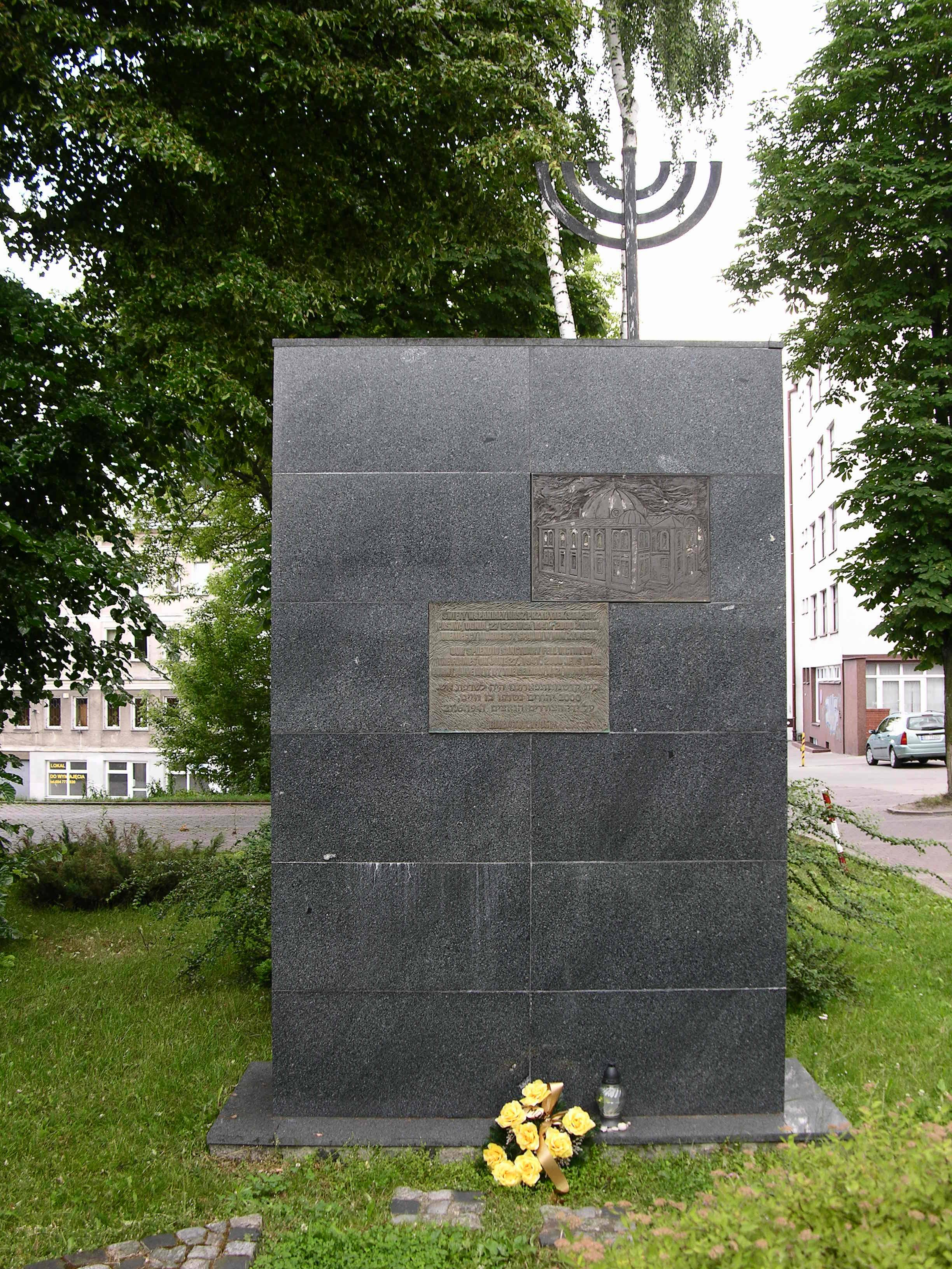 Great Synagogue in Białystok